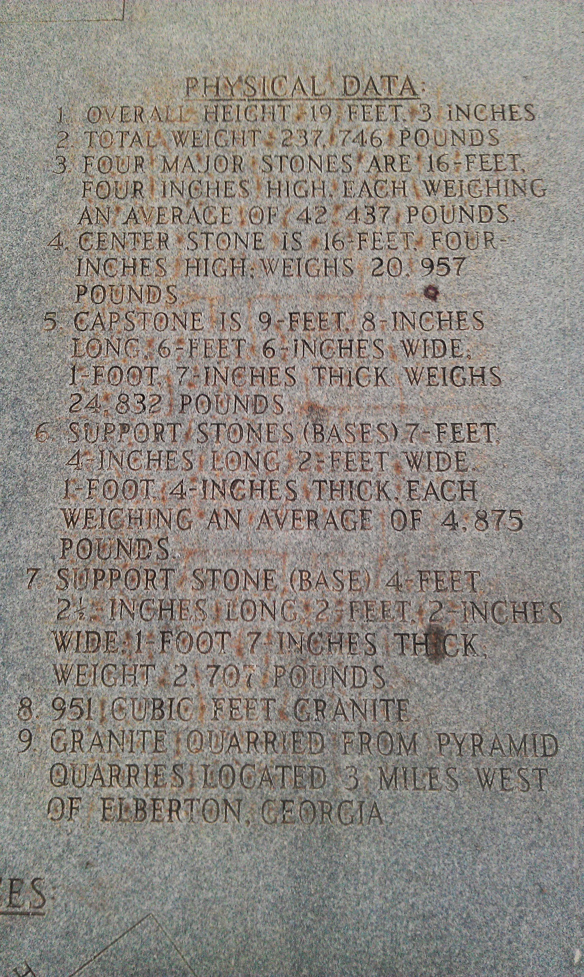 Closeup photo of the detail stone, specifying the physical dimensions and weight of the Guidestones.